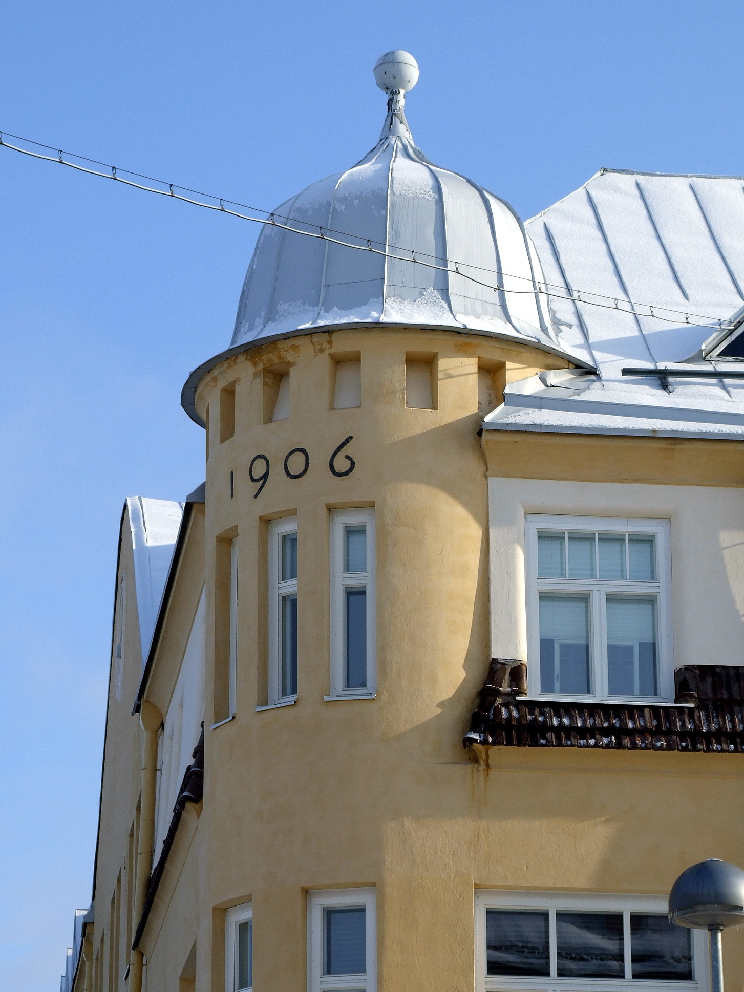 Tuomitalo building in the corner of Kajaaninkatu and Koulukatu streets in Oulu, Finland.